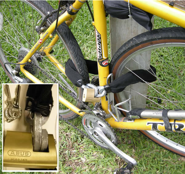 Case hardened security chain and monobloc padlock securing bicycle.